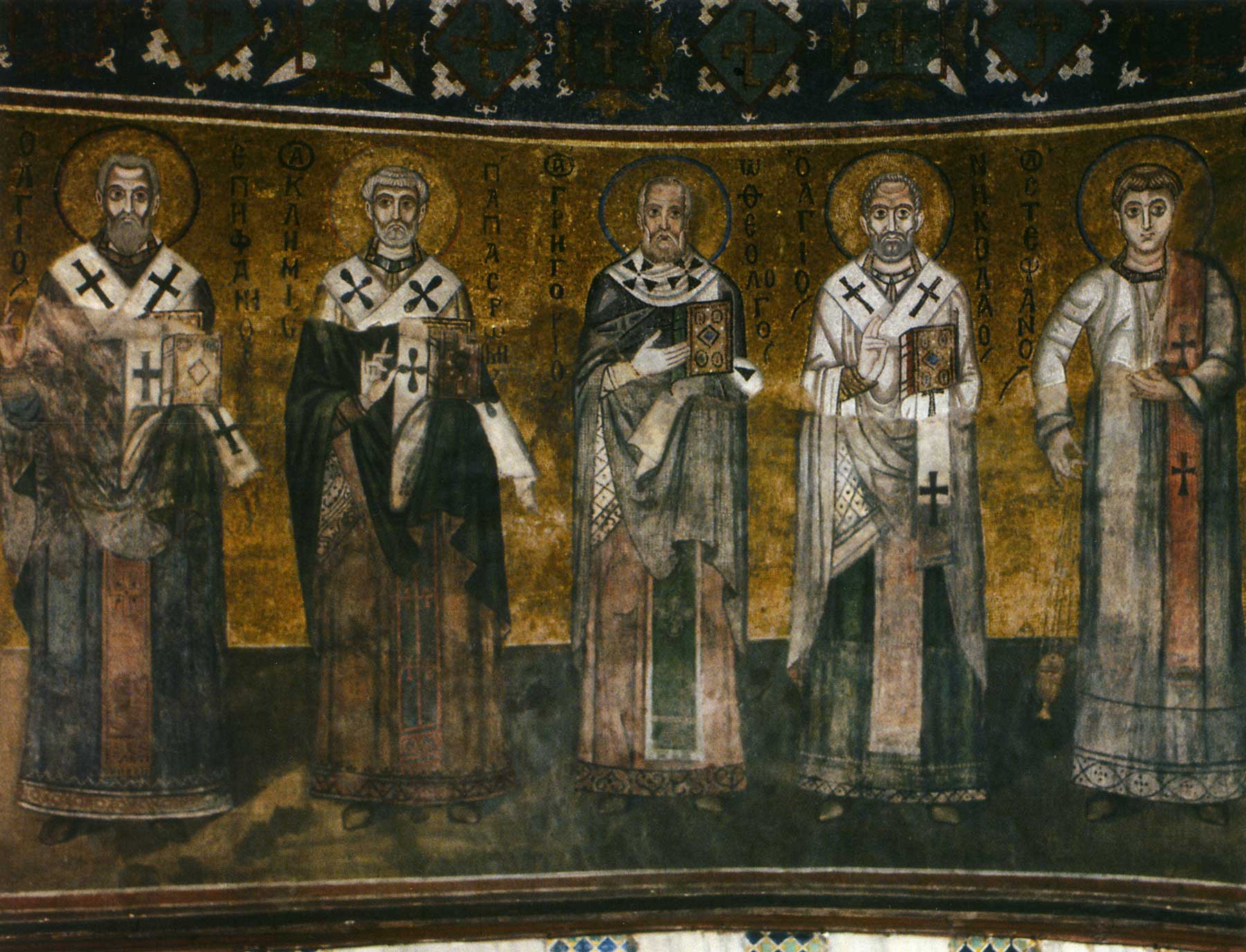 Mosaic, 11th c. In places of loss (lower part of the composition) — oil painting of the 18th c. Holy hierarchs are famous theologians of Christiian teching and oecumenical teachers. The composition is represented by two groups of saints. On the left: Epiphanius of Salamis, Clement of Rome, Gregory the Theologian, St. Nicholas the Wonderworker and Archdeacon Stephen. Near each saint Greek inscriptions have been preserved.